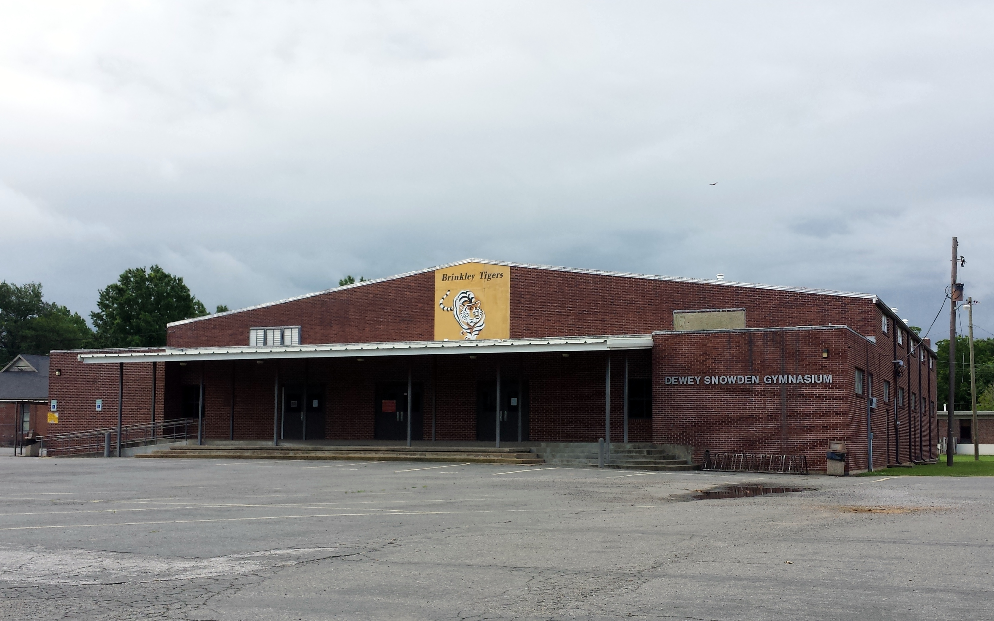 Gym at Brinkley HS